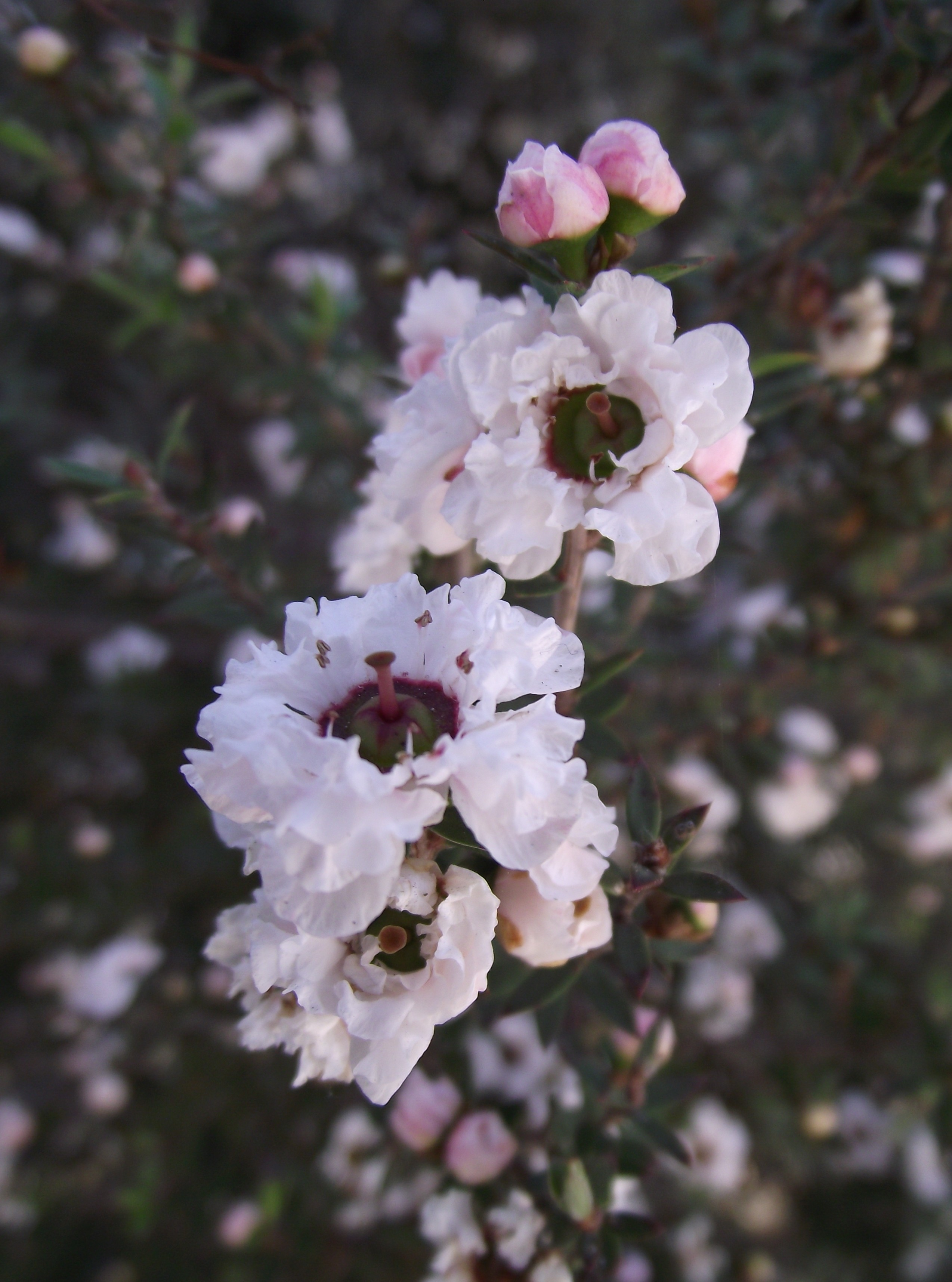 Leptospermum scoparium 'Snow White' at the Los Angeles County Arboretum, Arcadia, California, USA. Identified by sign.